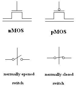 digital signs of MOSFET